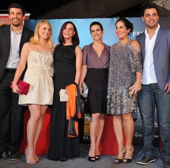 Cast of Lula, o Filho do Brasil during the film premiere at the Brasília Film Festival in November 17, 2009. Original caption "Brasília - Fábio Barreto, diretor do filme Lula, o filho do Brasil, fala durante abertura do Festival de Brasília do Cinema Brasileiro. Foto: Fábio Rodrigues Pozzebom/ABr."